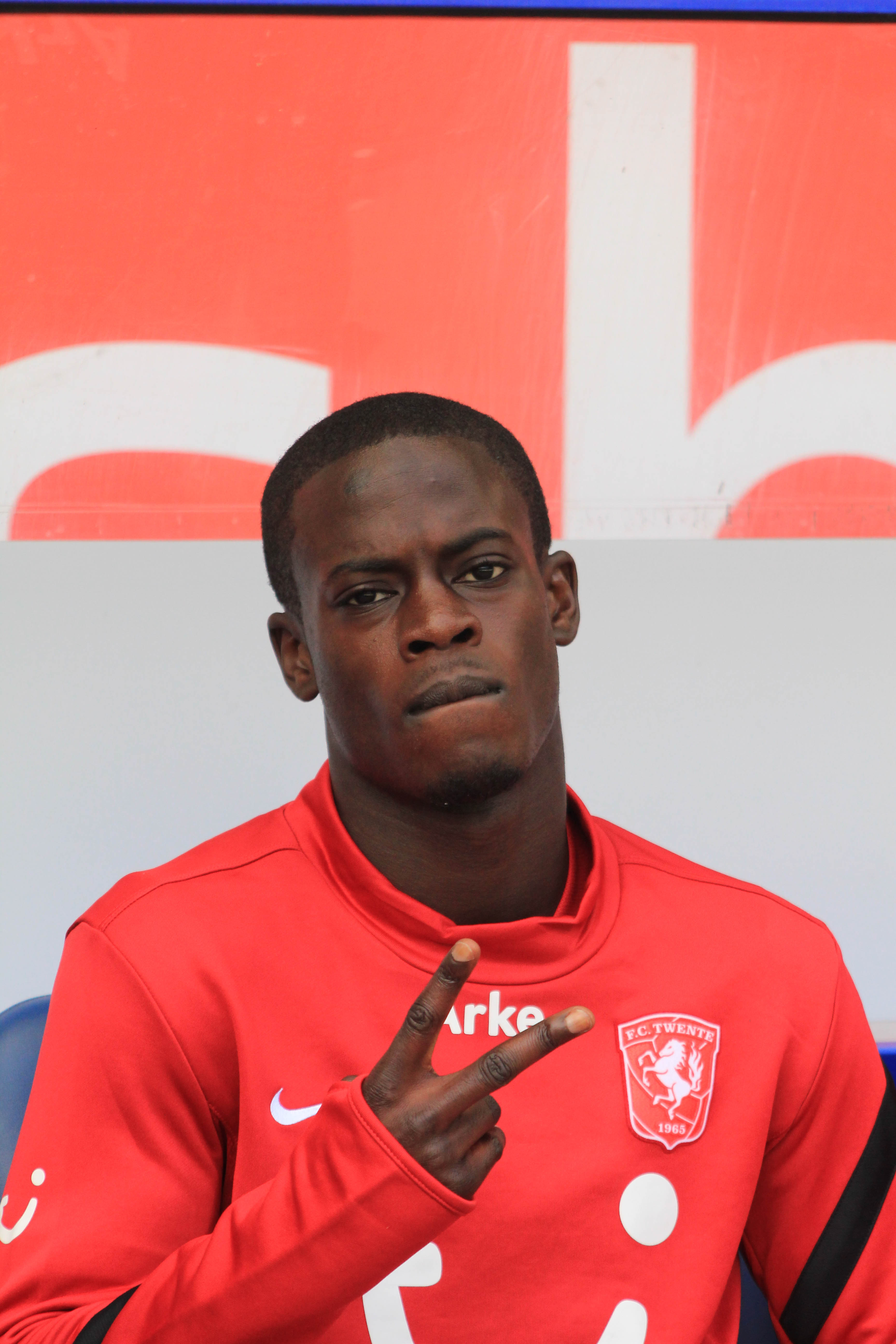 Dutch footballer Edwin Gyasi, FC Twente